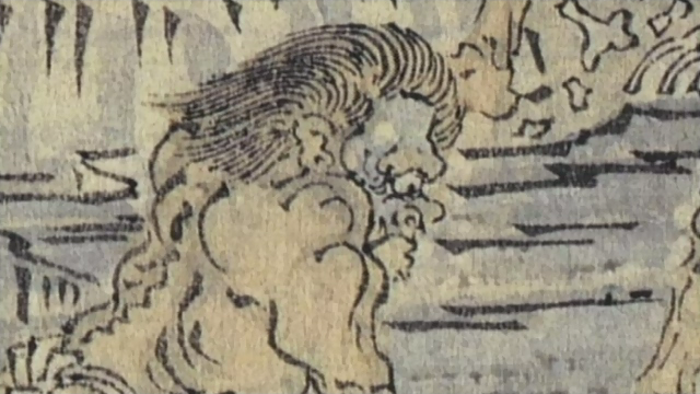 painted by Kawanabe Kyosai